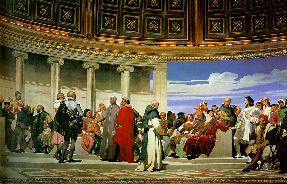 Left portion of "L'Hémicycle des Beaux-arts" by Paul Delaroche. École nationale supérieure des beaux-arts, Paris. Oil and wax on wall.